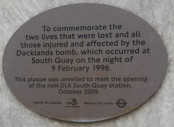 The Provisional Irish Republican Army (IRA) detonated a 3,000 pounds (1,400 kg) truck bomb in London’s Docklands on the 9 February 1996 bringing to an end a 17-month ceasefire.